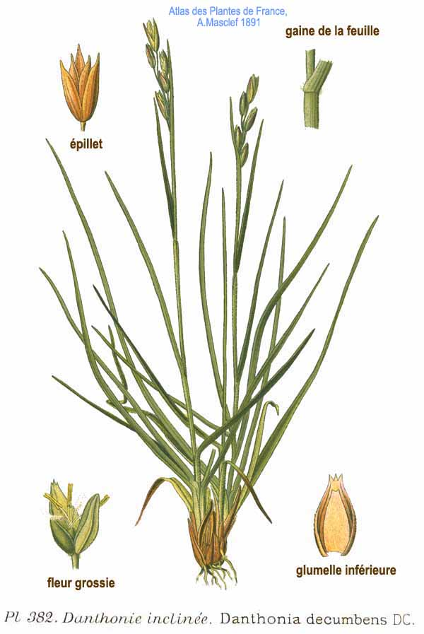 Danthonia decumbens DC